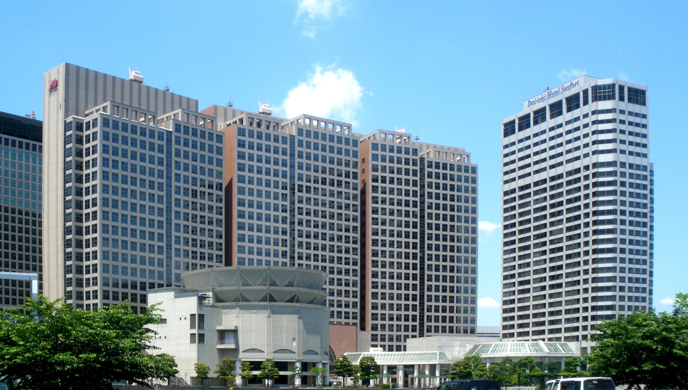 A photo of Seafort Square,Higashishinagawa,Shinagawa-ku,Tokyo,Japan.